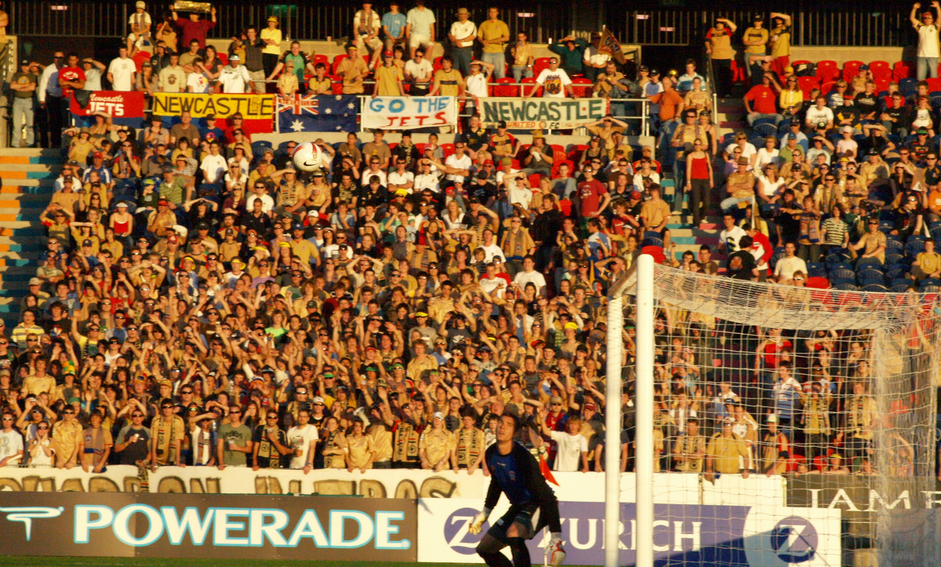 Ante Covic in front of The Squadron, Round 2 of A-League season 2007-08